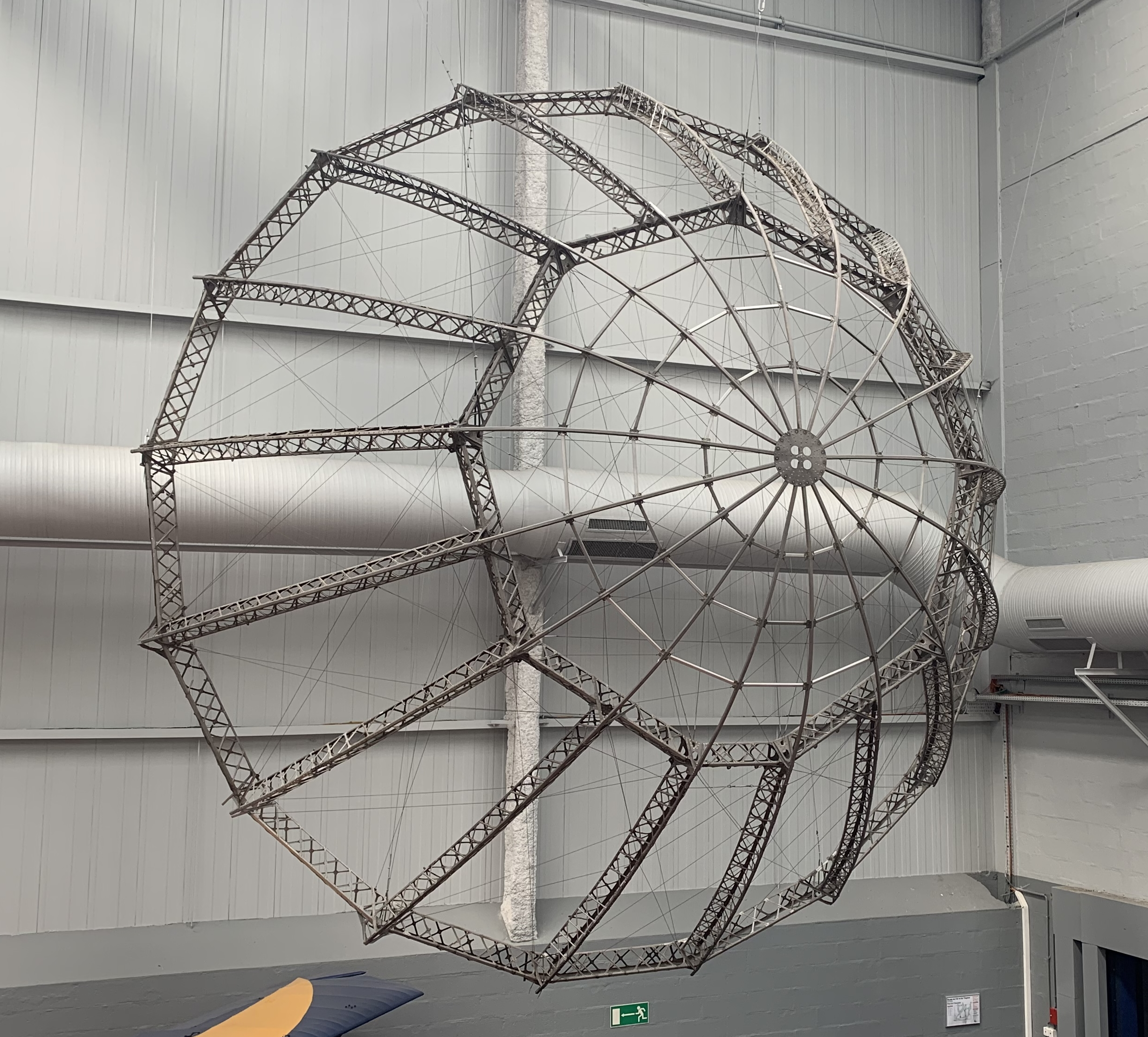 Nose Cone of the LZ 121/Méditerranée on display at the Musée de l’air et de l’espace in Le Bourget France.